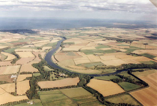 River Tweed A view of the Tweed as it passes Paxton House toward Berwick-upon-Tweed where it flows into the sea. Lindisfarne is just visible in the haze in the upper right of the photo.